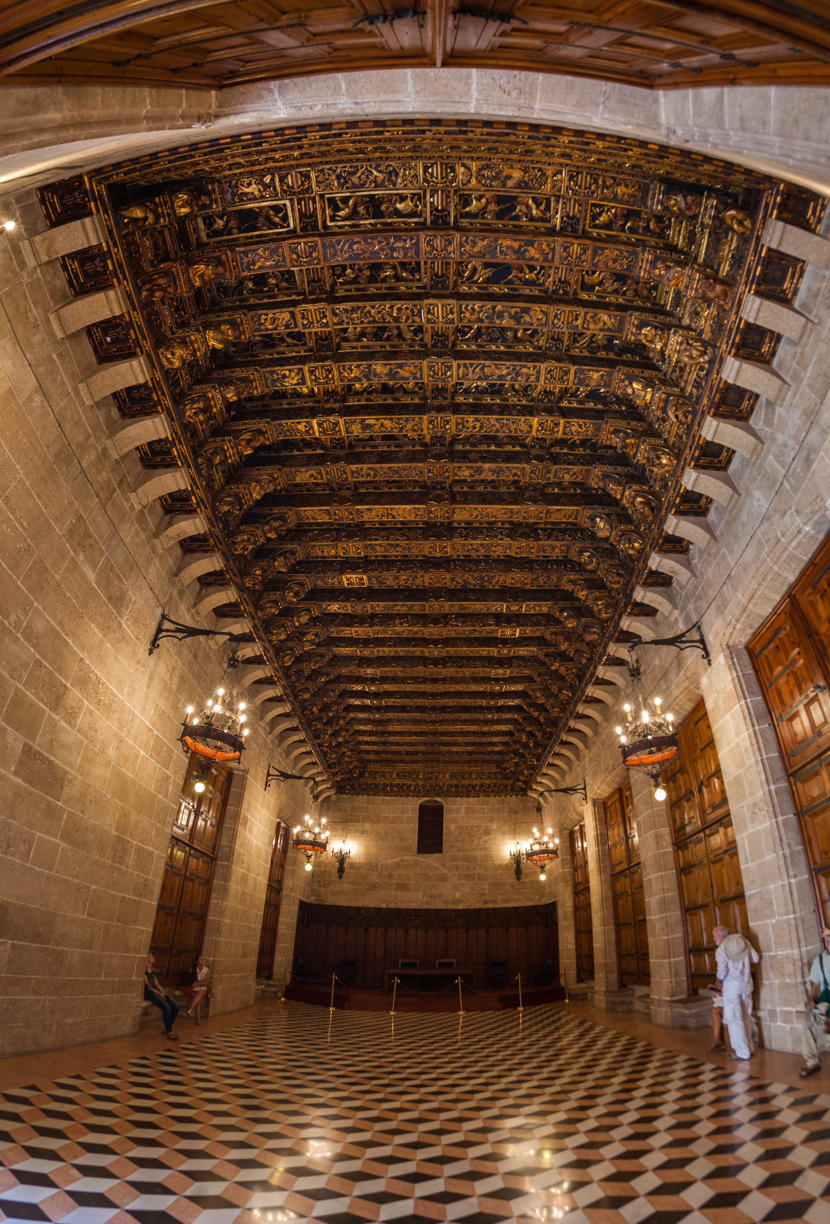 Consulate of the Sea, Silk Market, Valencia, Spain